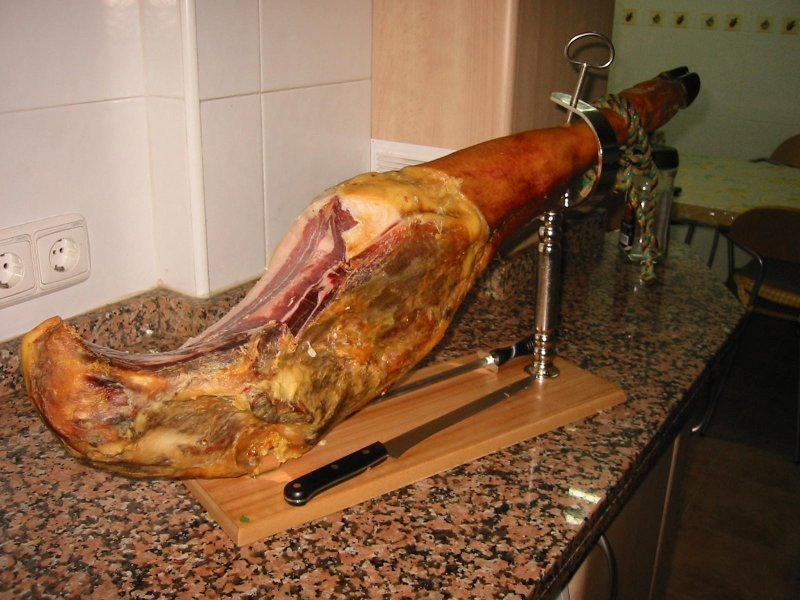 Spanish cured ham (Pata de jamón ibérico)